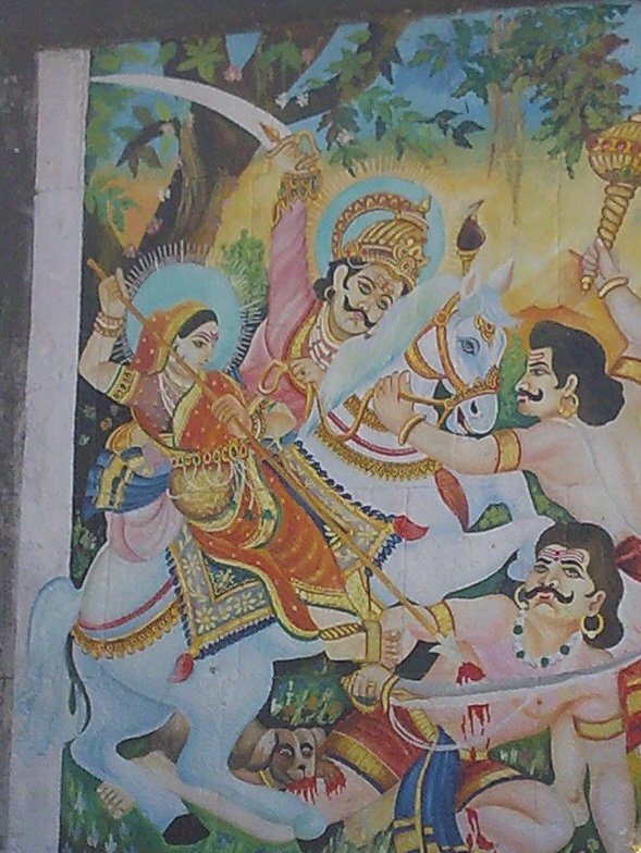 God Khandoba and his wife fighting demons Mani-Malla, a mural from the Jejuri temple. Devotees emphasize that Khandoba is an avatar of Shiva